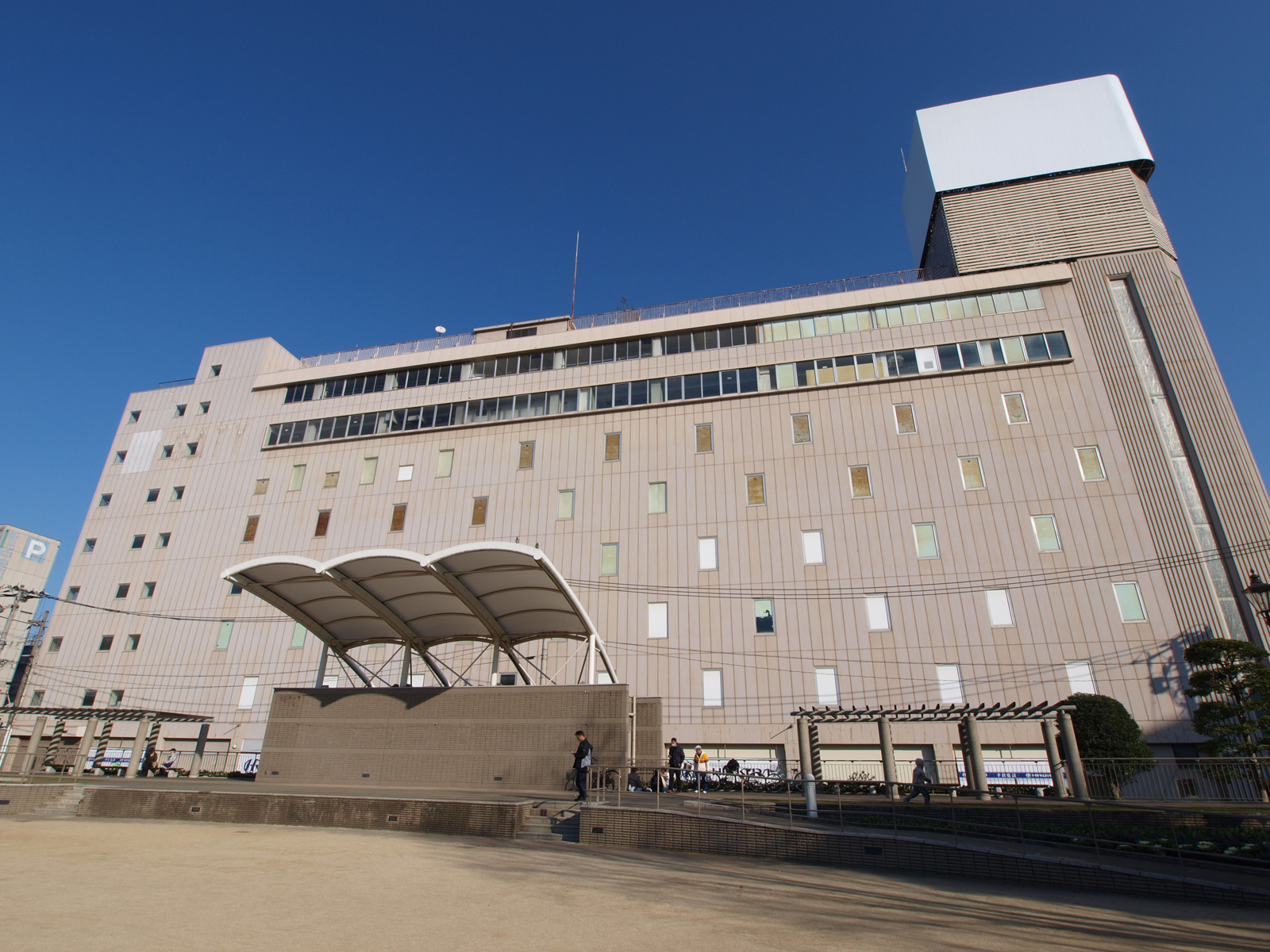 Oita Saty after closure, Oita Pref., Japan